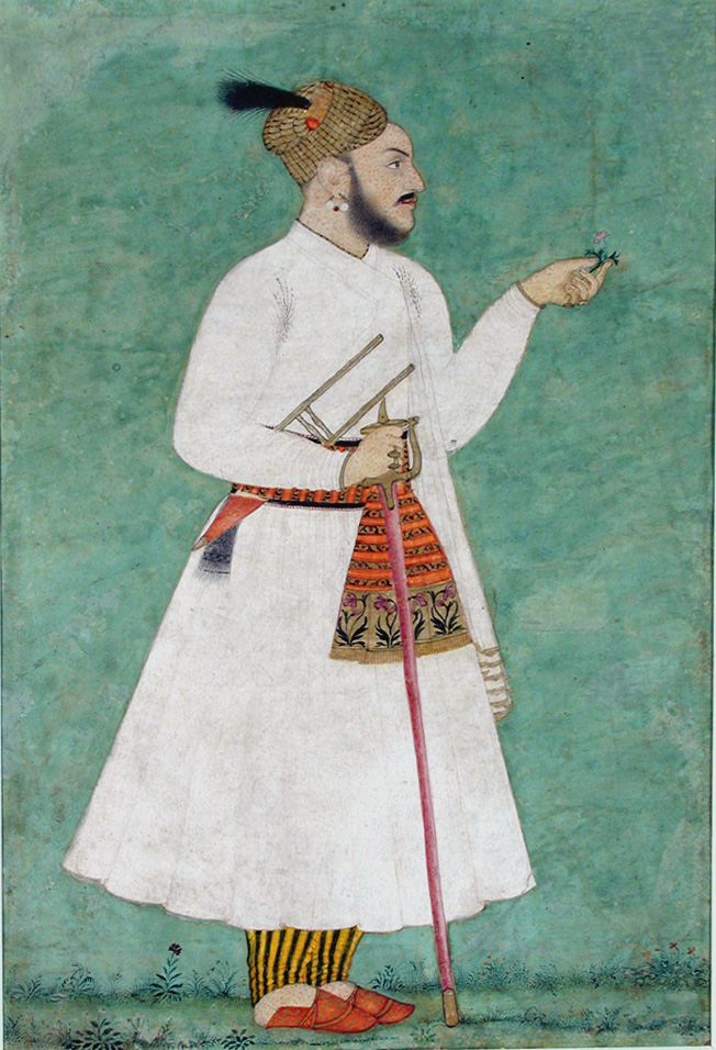 Creation Date: last quarter 18th century Display Dimensions: 7 15/16 in. x 5 11/32 in. (20.2 cm x 13.6 cm) Credit Line: Edwin Binney 3rd Collection Accession Number: 1990.1154 Collection: The San Diego Museum of Art